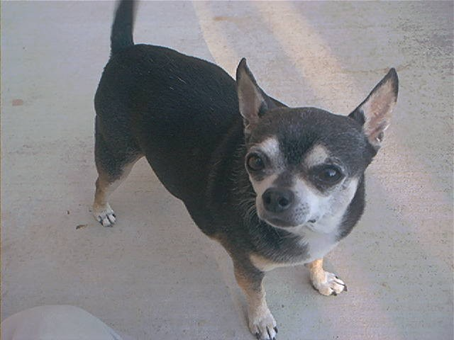 This is a photograph I took of my now deceased pet chihuahua named Licorice. He was over ten years old, and this image was taken about eight months before his death.